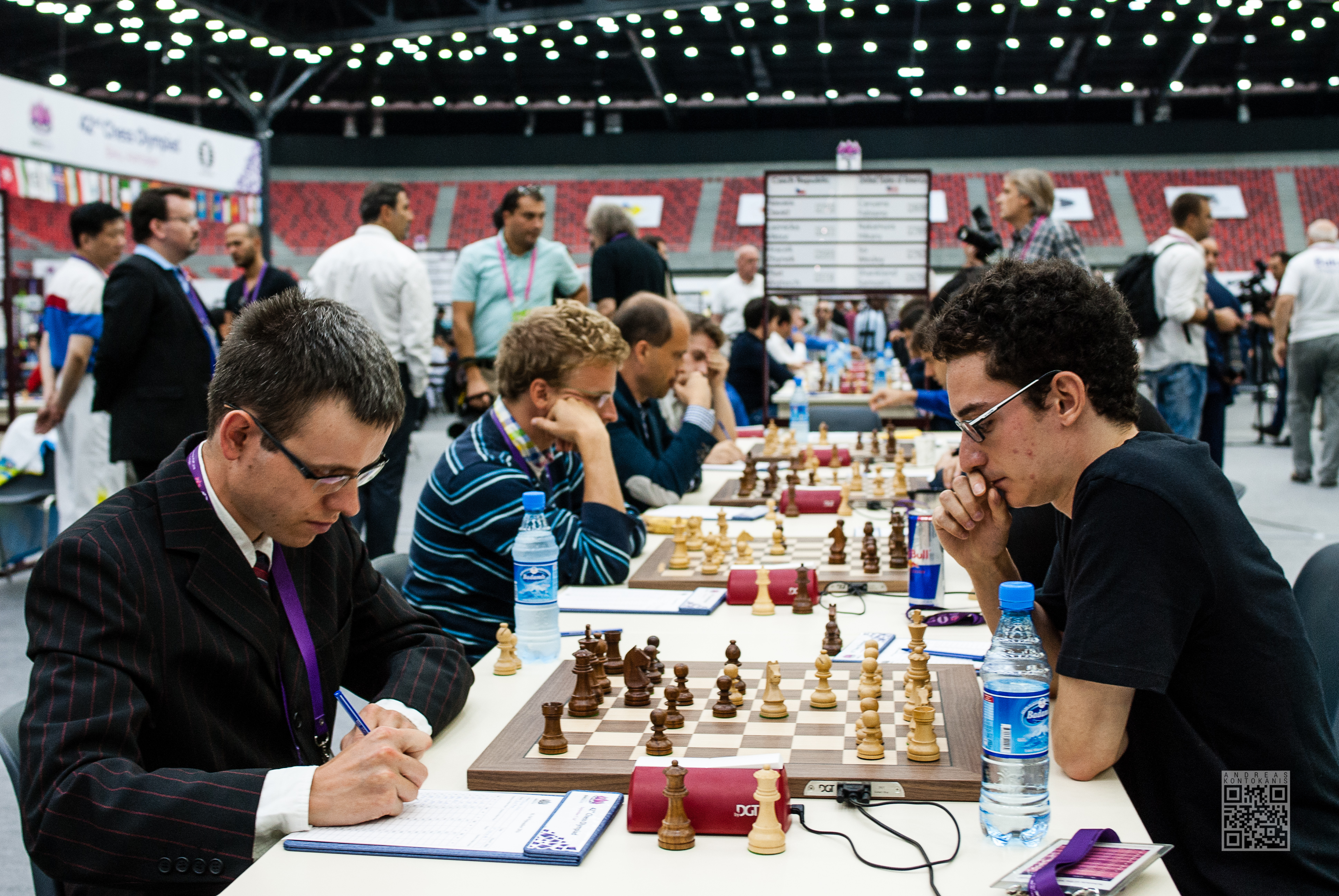 Czech Republic vs USA